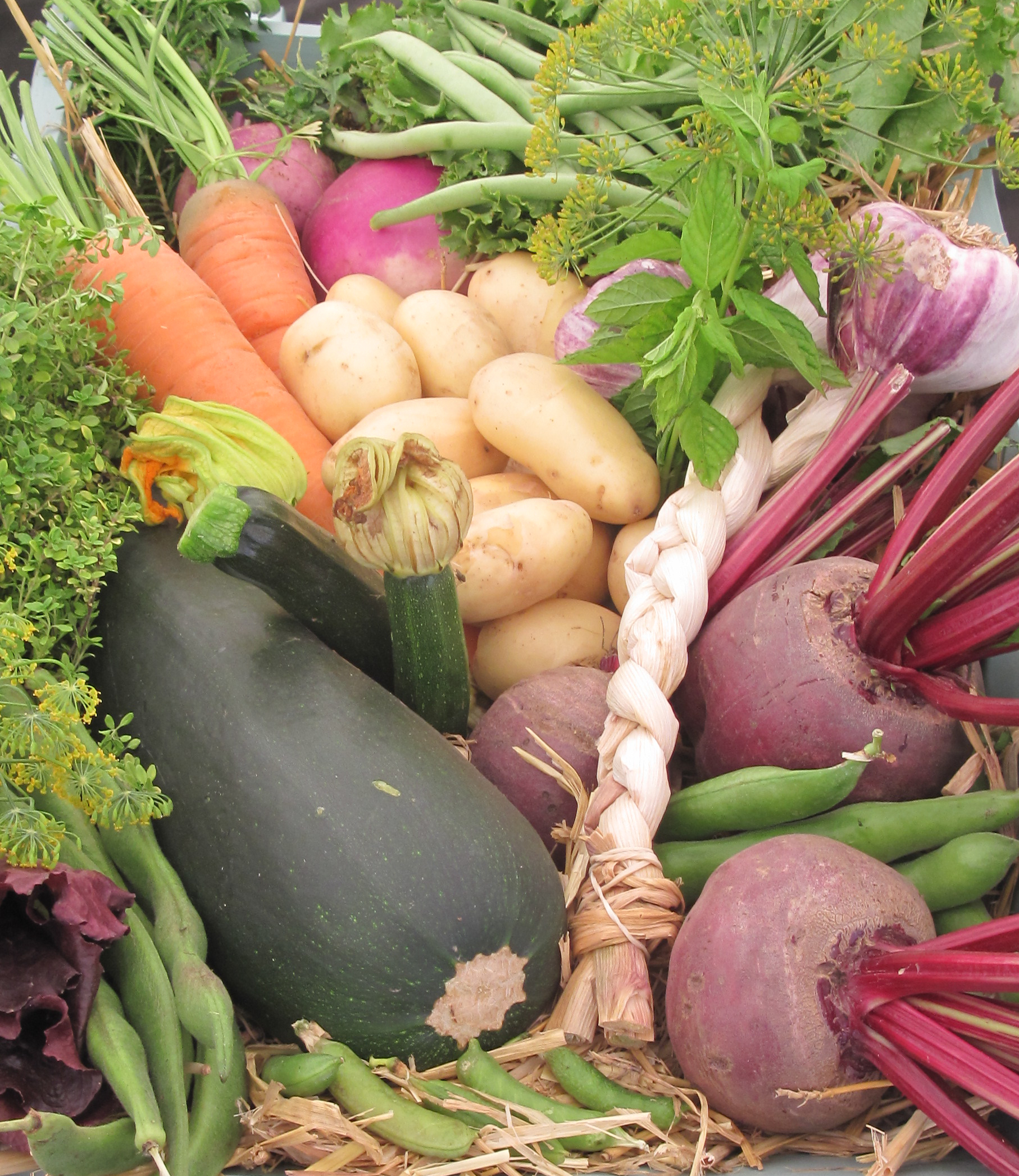 West Show, Jersey, 10-11 July 2010